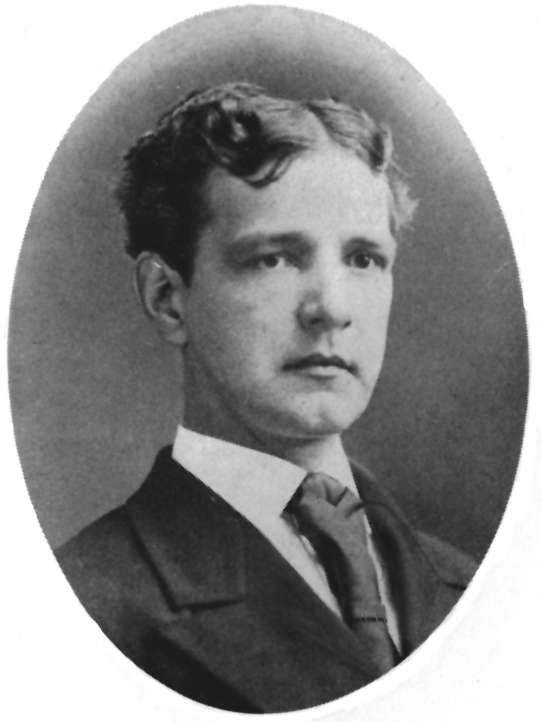 George B. Young, associate justice of the Supreme Court of Minnesota